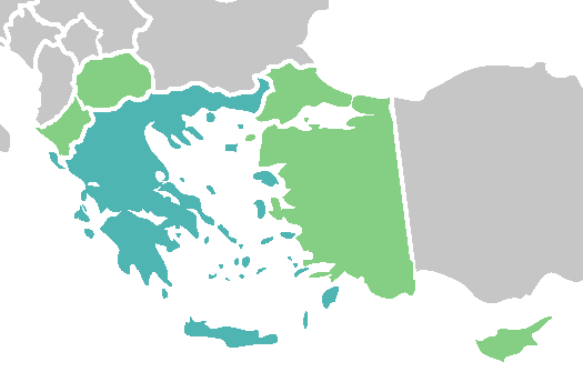 A map to show Greater Greece.